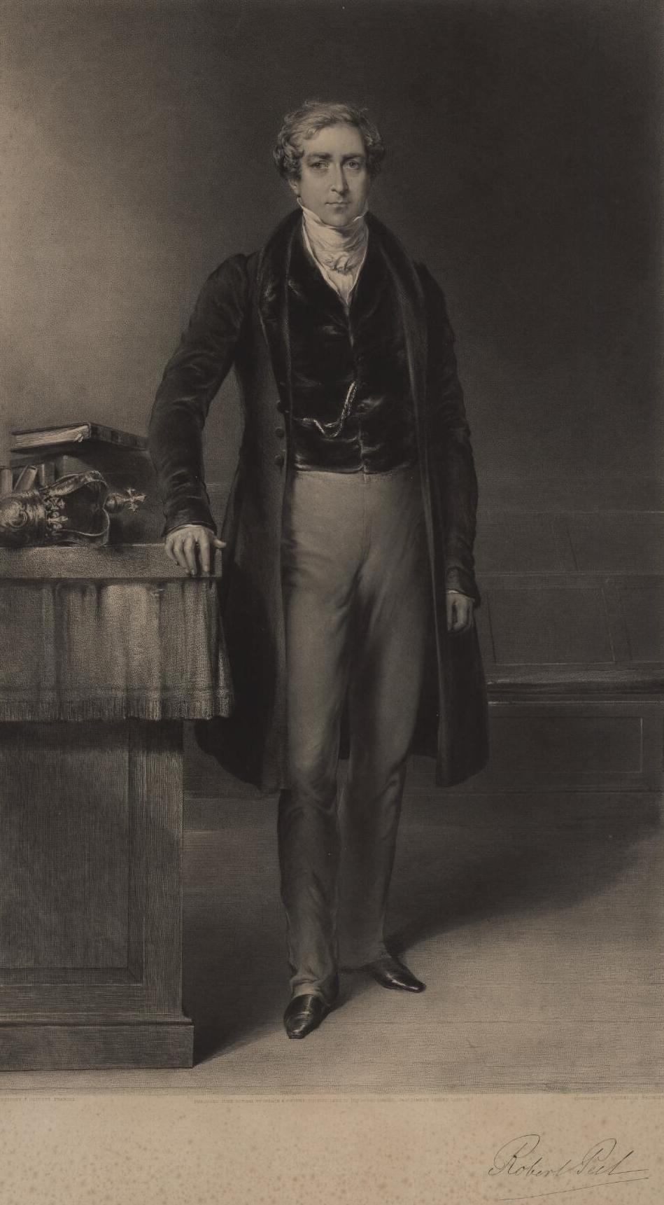 A portrait from the Welsh Portrait Collection at the National Library of Wales. Depicted person: Robert Peel – British Conservative statesman(1788-1850)